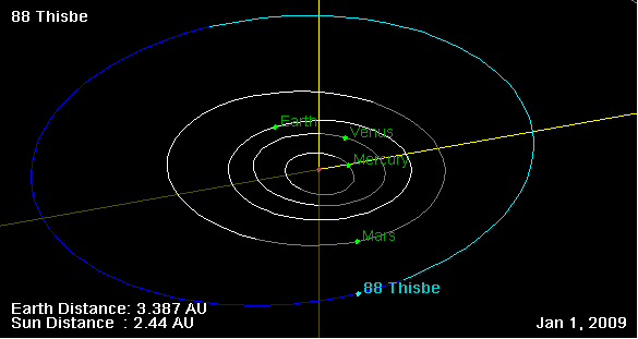 88 Thisbe orbit, and his position on 01 Jan 2009 (NASA Orbit Viewer applet)